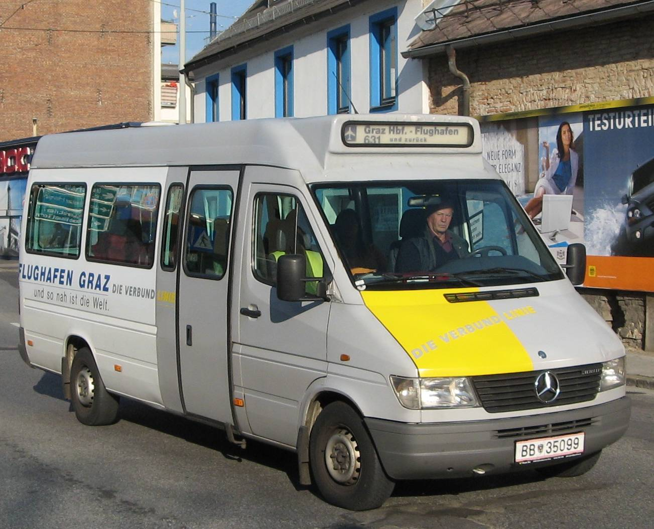 Mercedes-Benz Sprinter 308D operated by ÖBB Postbus GmbH on line 631 from Graz Hbf via Griesplatz to Graz-Feldkirchen airport. Graz, Karlauer Straße.